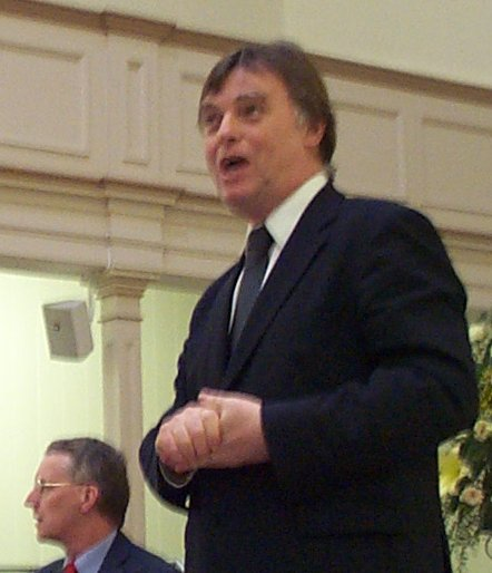 Andrew Smith, Oxford, 2005-01-27. Copyright © 2005 Kaihsu Tai. Hilary Benn is in the background.